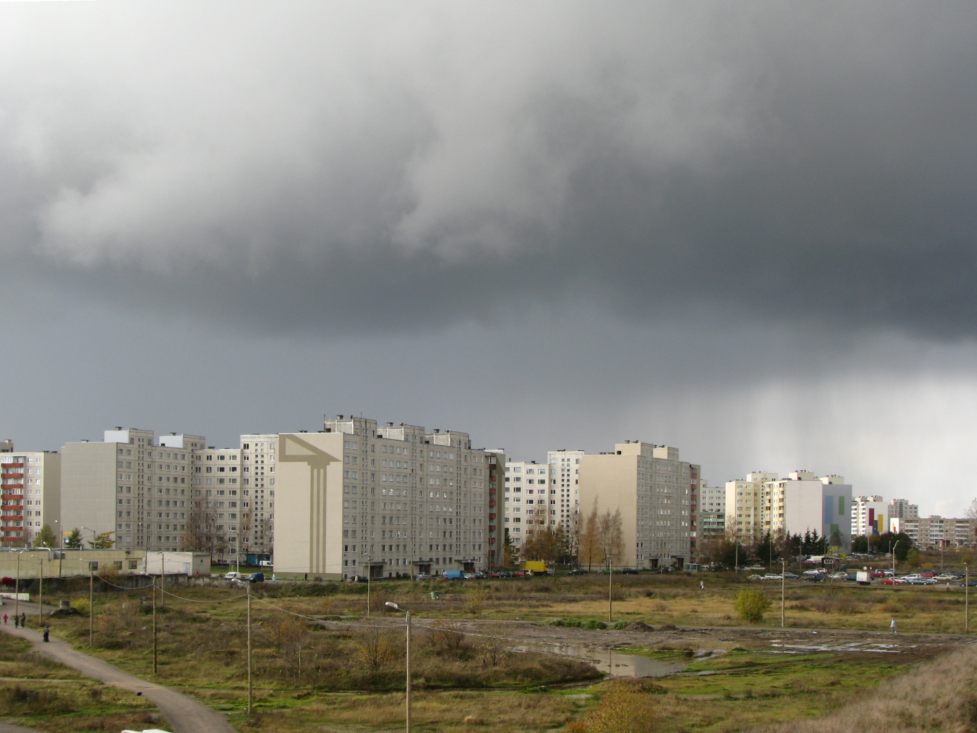 Tallinn, Lasnamäe district, Priisle subdistrict. October 28, 2008